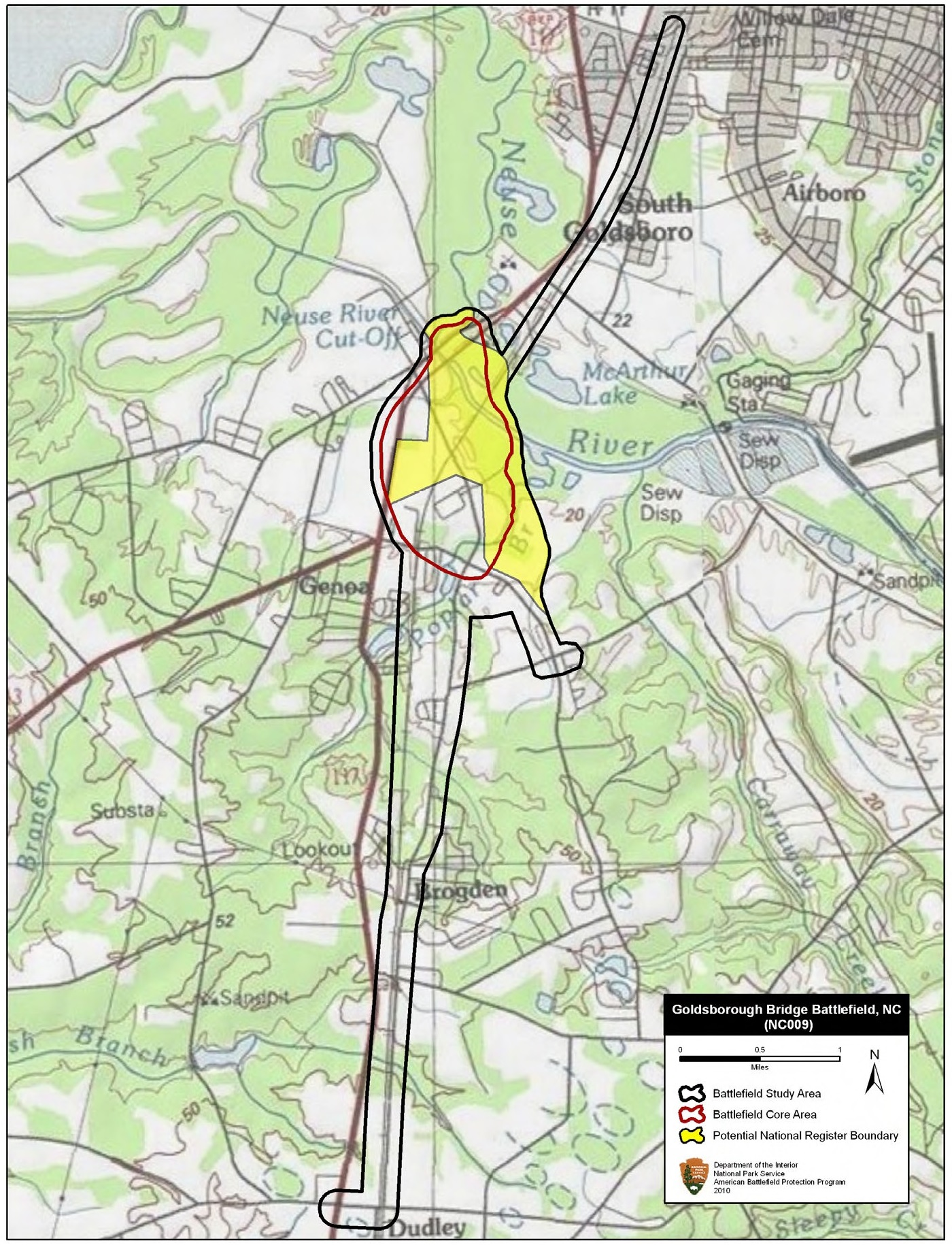 Map of battlefield core and study areas. The Study Area includes a portion of the Federal approach from the vicinity of White Hall.